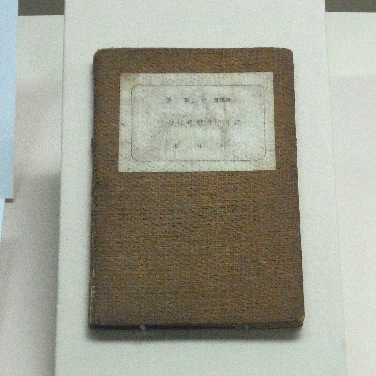 Poetical works of Yoon Dong-ju, 《Sky, Wind, Star and Poem》.